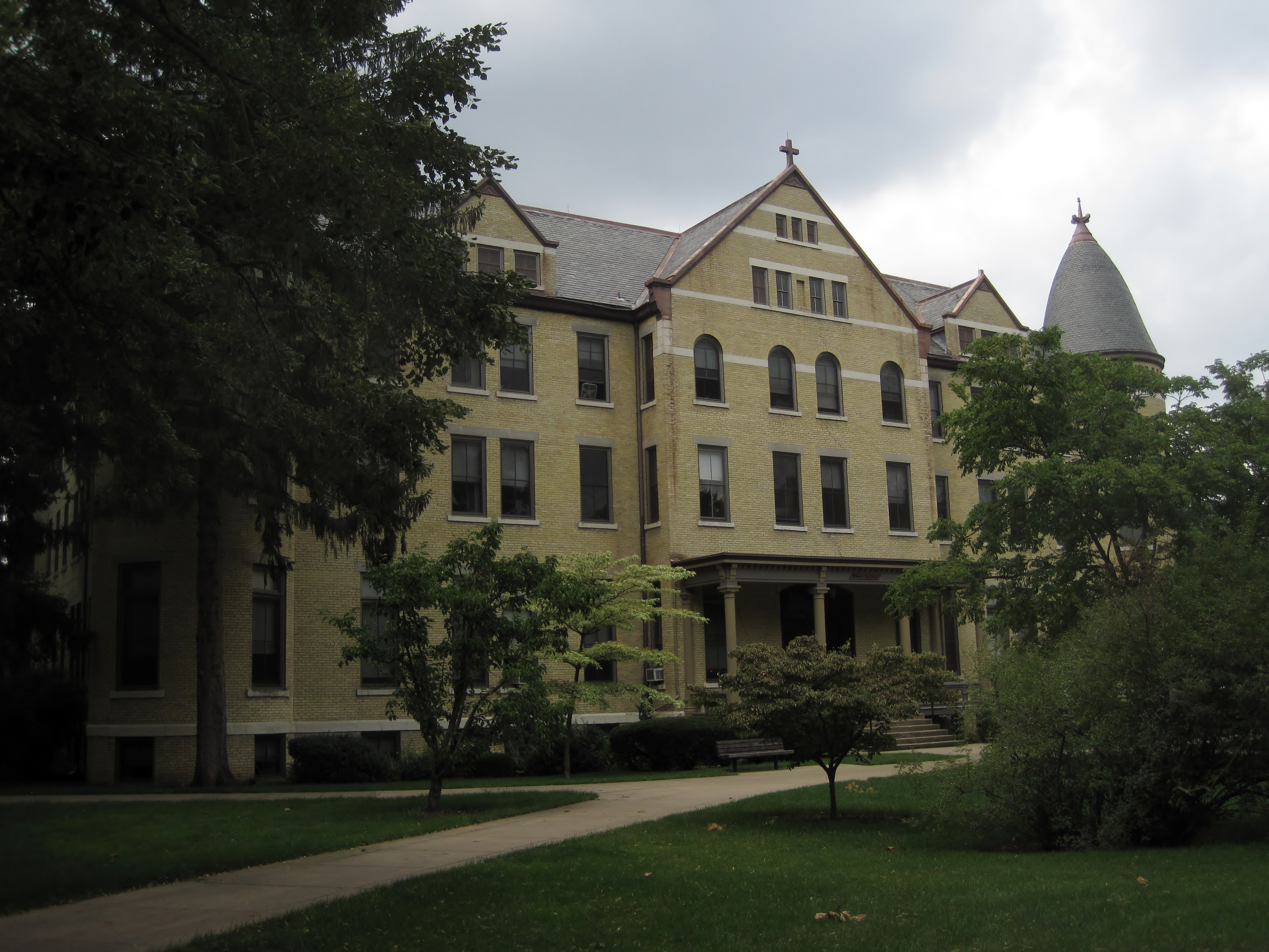 Sorin Hall at the University of Notre Dame Campus Main and South Quadrangles in South Bend, IN (1889). It was the first on-campus residence hall.